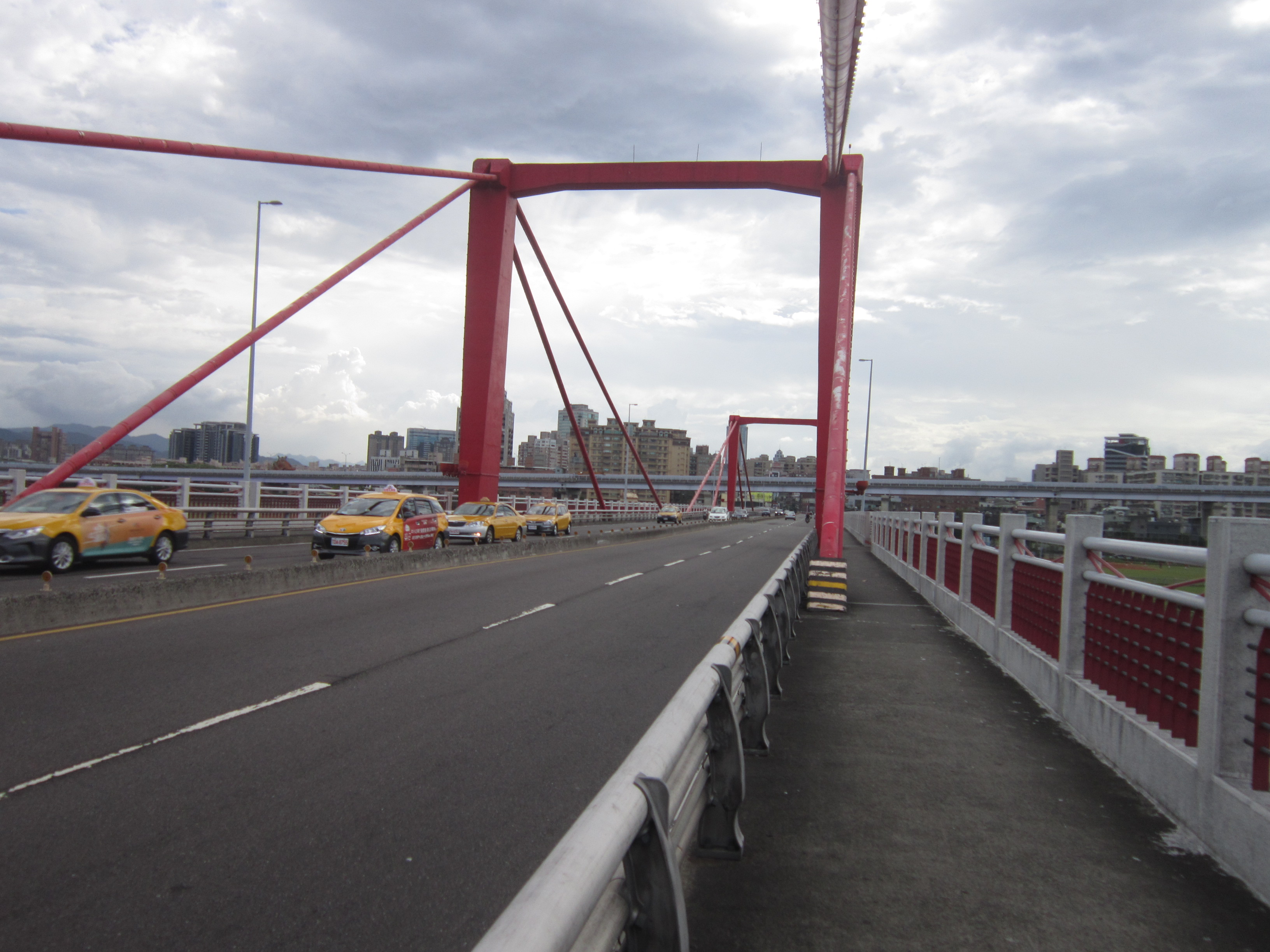 Guangfu_Bridge_1